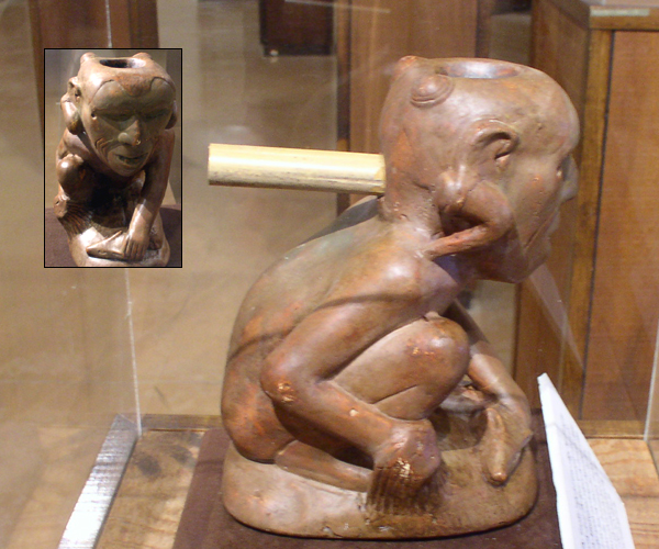 A stone effigy pipe from the Spiro Mound Site, known as the Lucifer pipe.